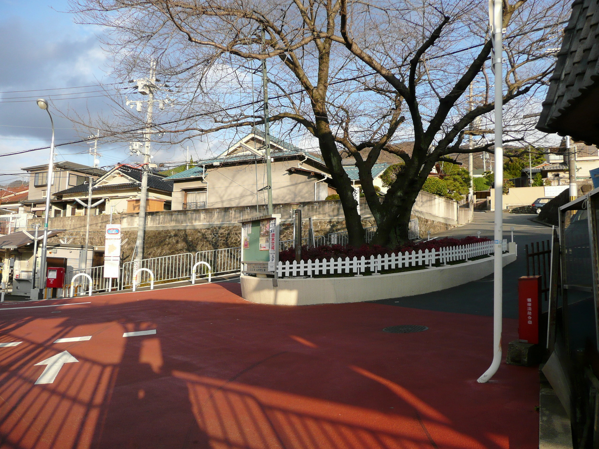 Kinki Nippon Railway,Nara Line,Nukata Station east plaza.